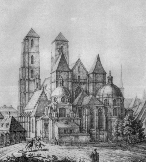 Eastern side of St. John Cathedral Church in Wrocław from 18th century